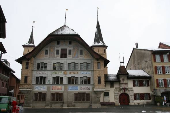 Büren Castle seen from the south.